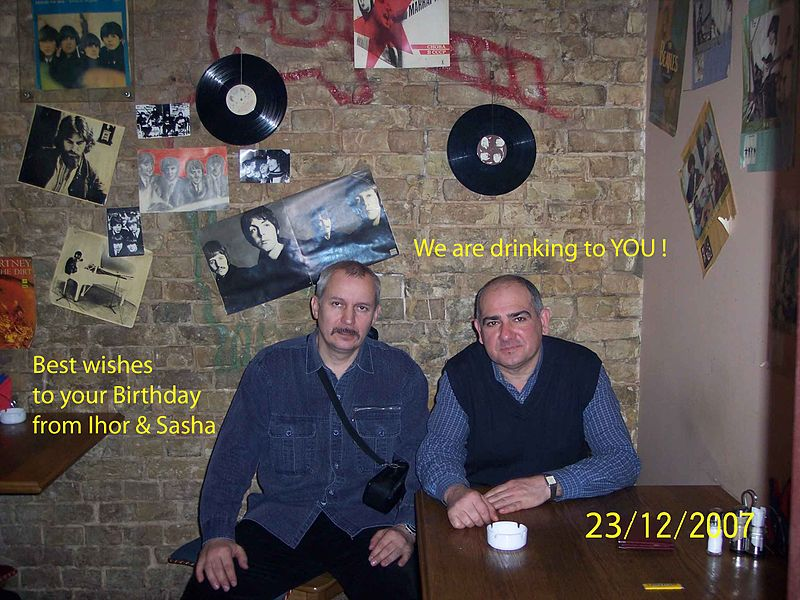 Sasha&Ihor_in_Beatles'_Cafe1 Ukraine